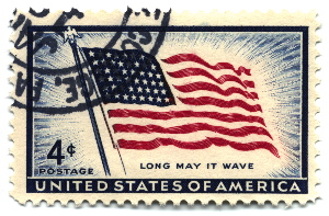 Scan of United States 4c flag stamp of 1957